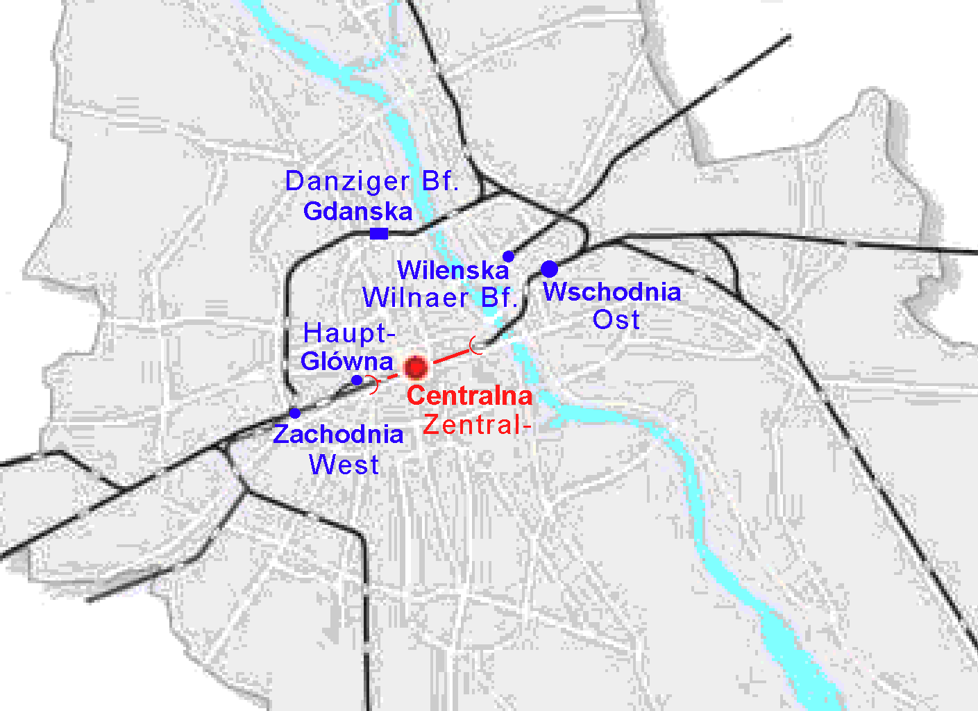 Warszawa Centralna and other important Stations of Warsaw, Text PL/DE